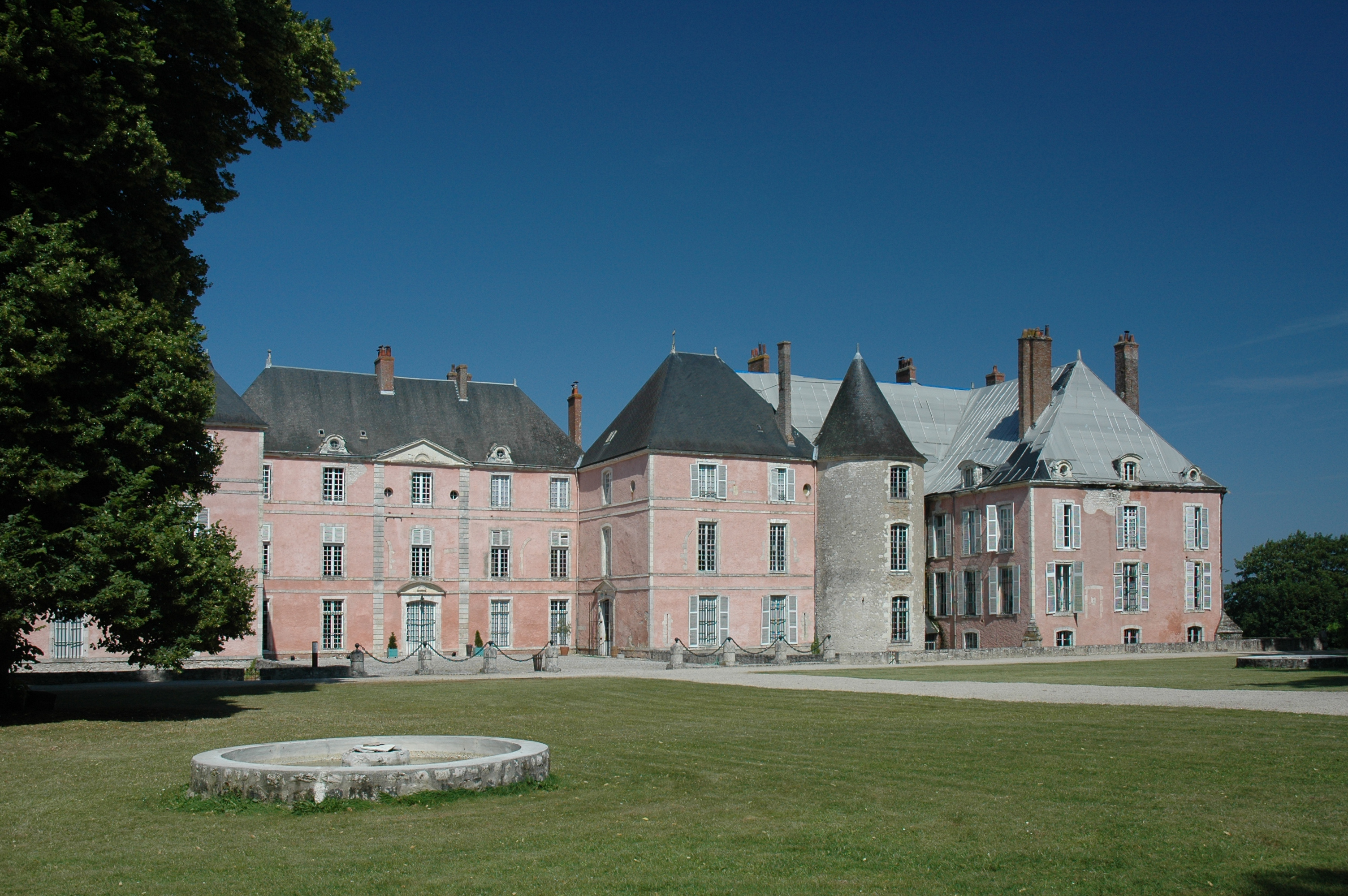 Castle of Meung-sur-Loire